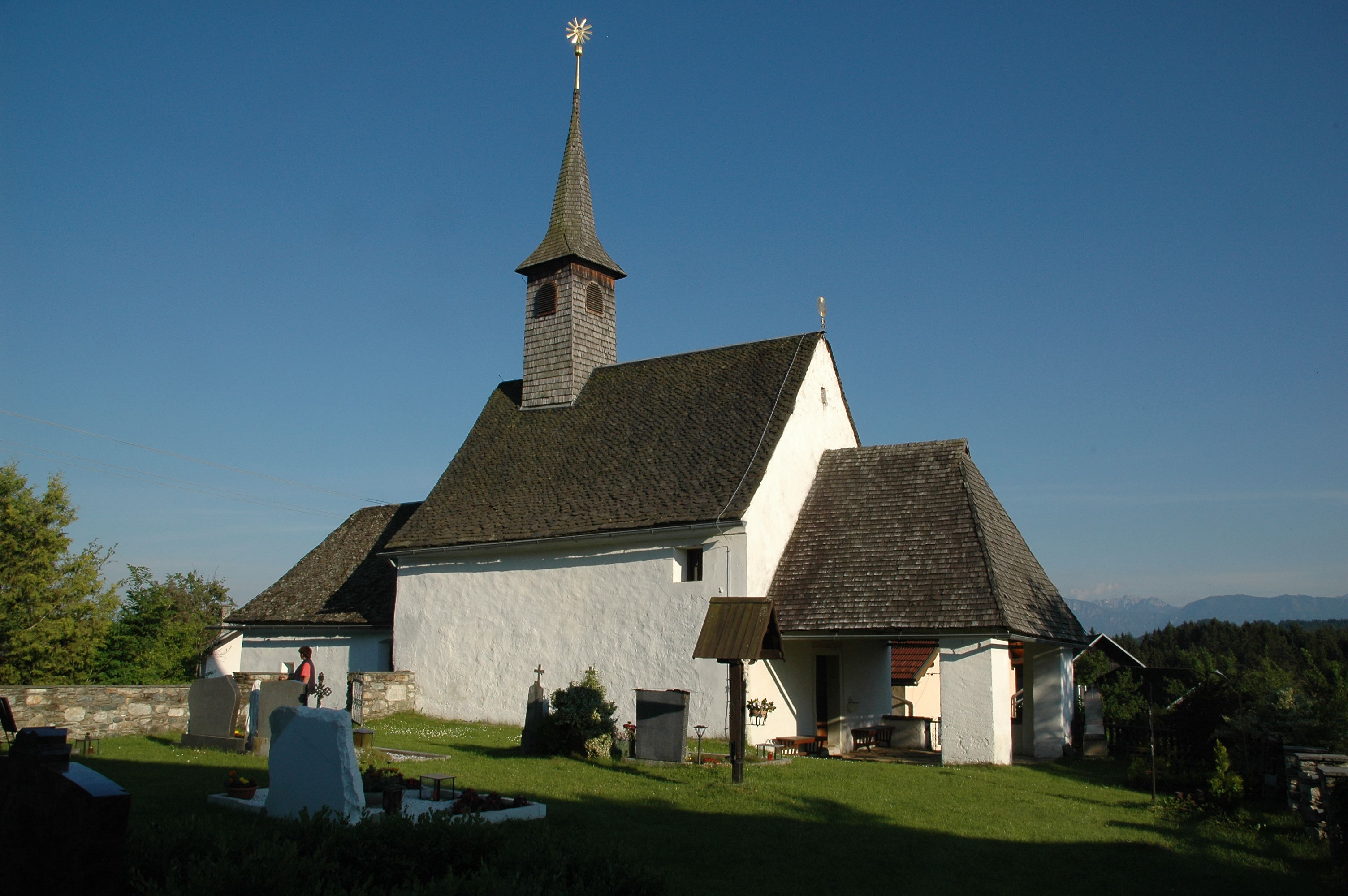 Subsidiary church at Faning, in the municipality Moosburg, district Klagenfurt Land, Carinthia, Austria